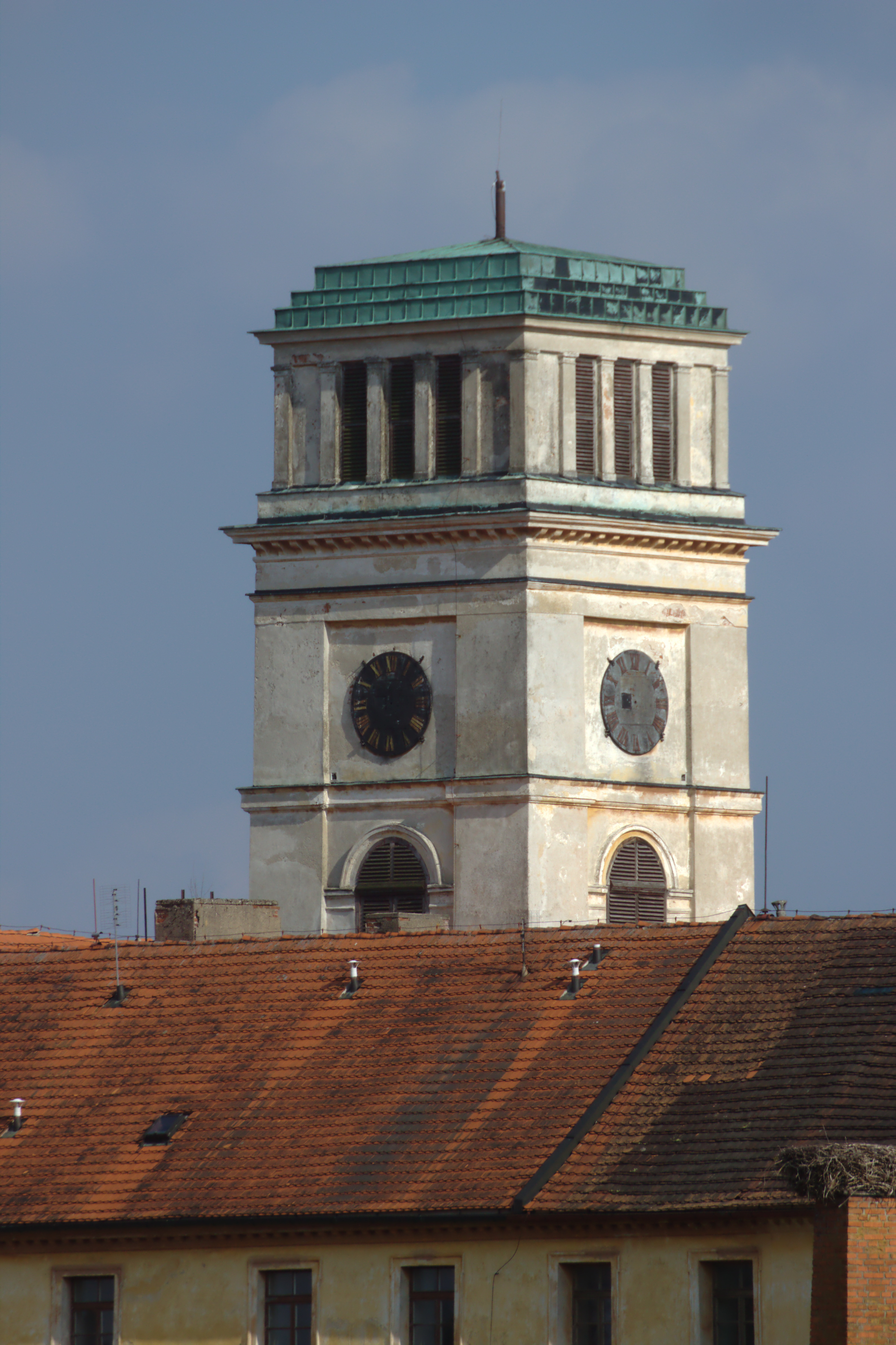 Nalžovy Castle tower, Nalžovské Hory, Plzeň Region, CZ